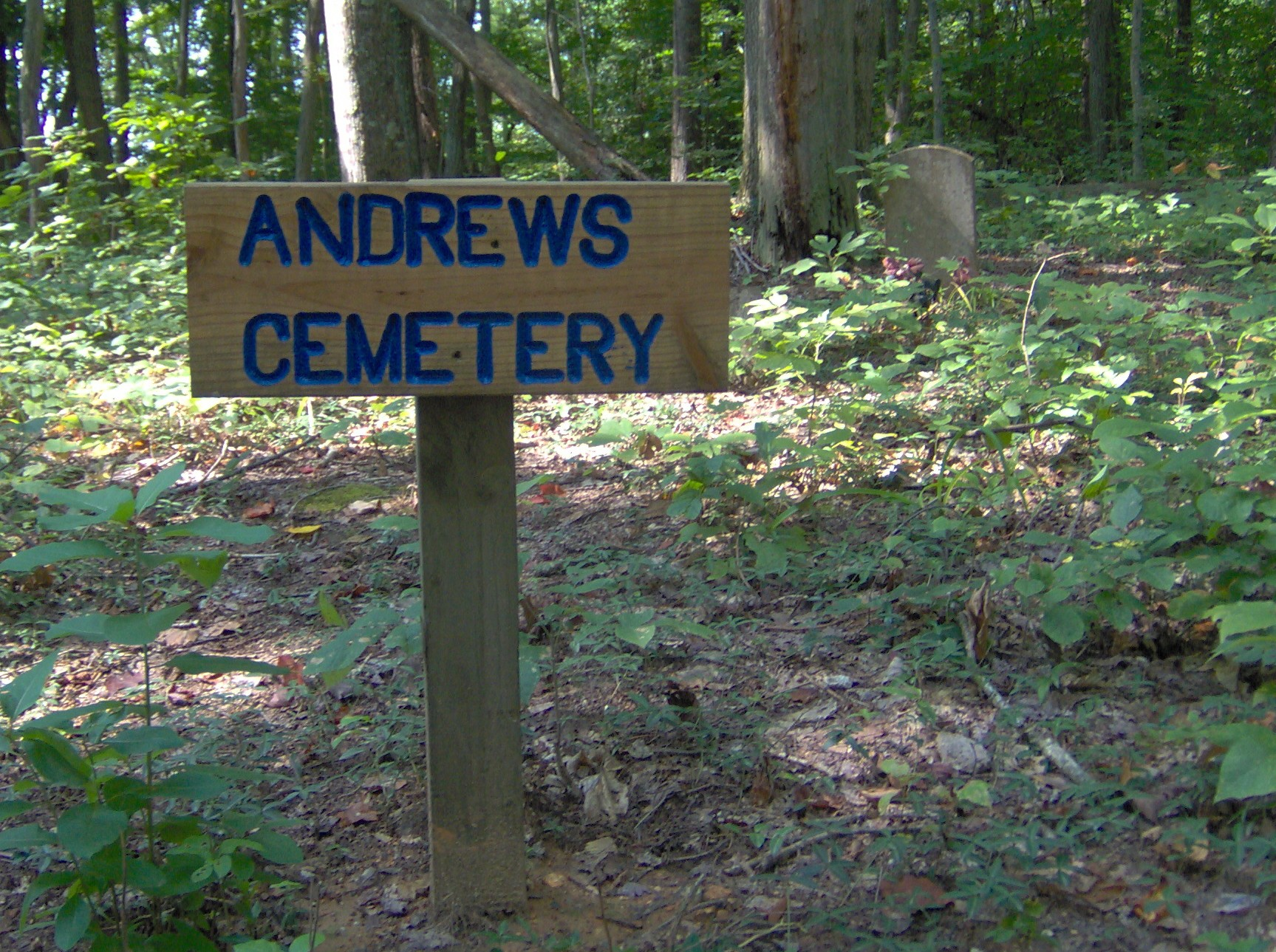 Andrews Cemetery atop Andrews Ridge in the west section of Norris Dam State Park in Campbell County, Tennessee, in the southeastern United States. Robert Andrews and his wife, Martha, are buried here. The cemetery is located just past the second junction of the Andrews Ridge Trail and the Sinkhole Trail.